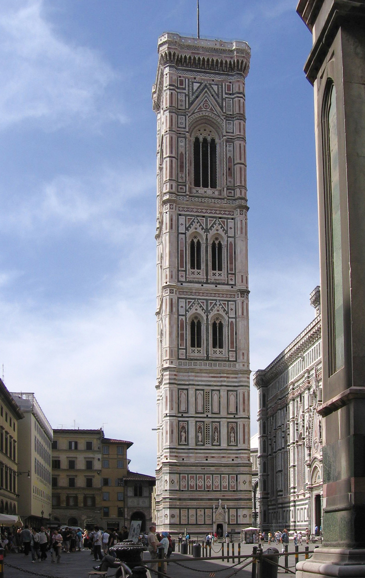 The exterior of Giotto's Campanile (or bell tower), part of the Basilica di Santa Maria del Fiore (or Florence Cathedral) in Florence. Perspective correction has been applied to overcome the lens distortion, resulting from such a tall building.